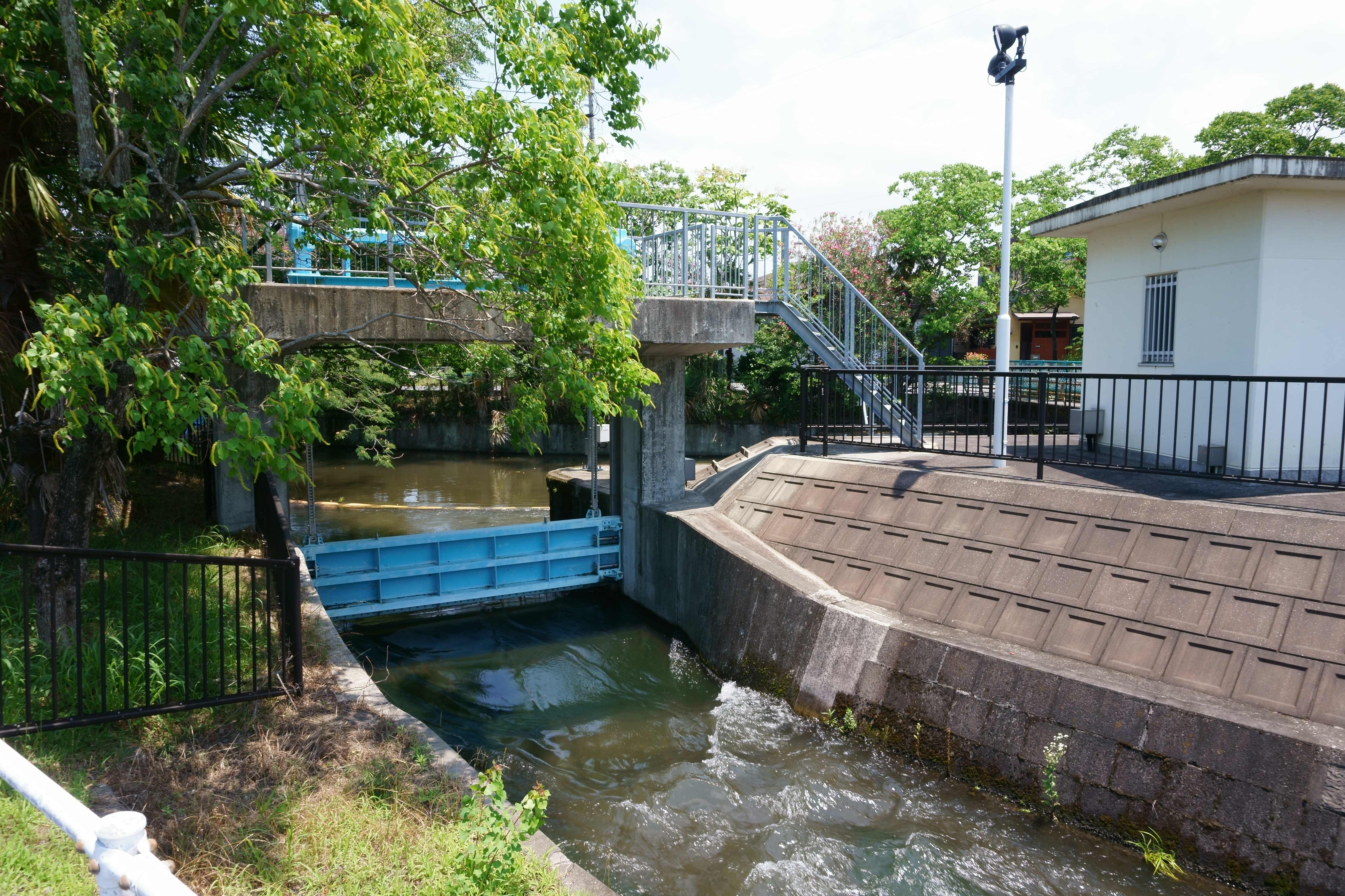 Ōide division work, a distribution point of Ten'yūji River from Tafuse River in Ten'yū, Saga city, Saga prefecture, Japan.